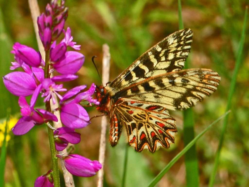 Papilionidae - Zerynthia polyxena